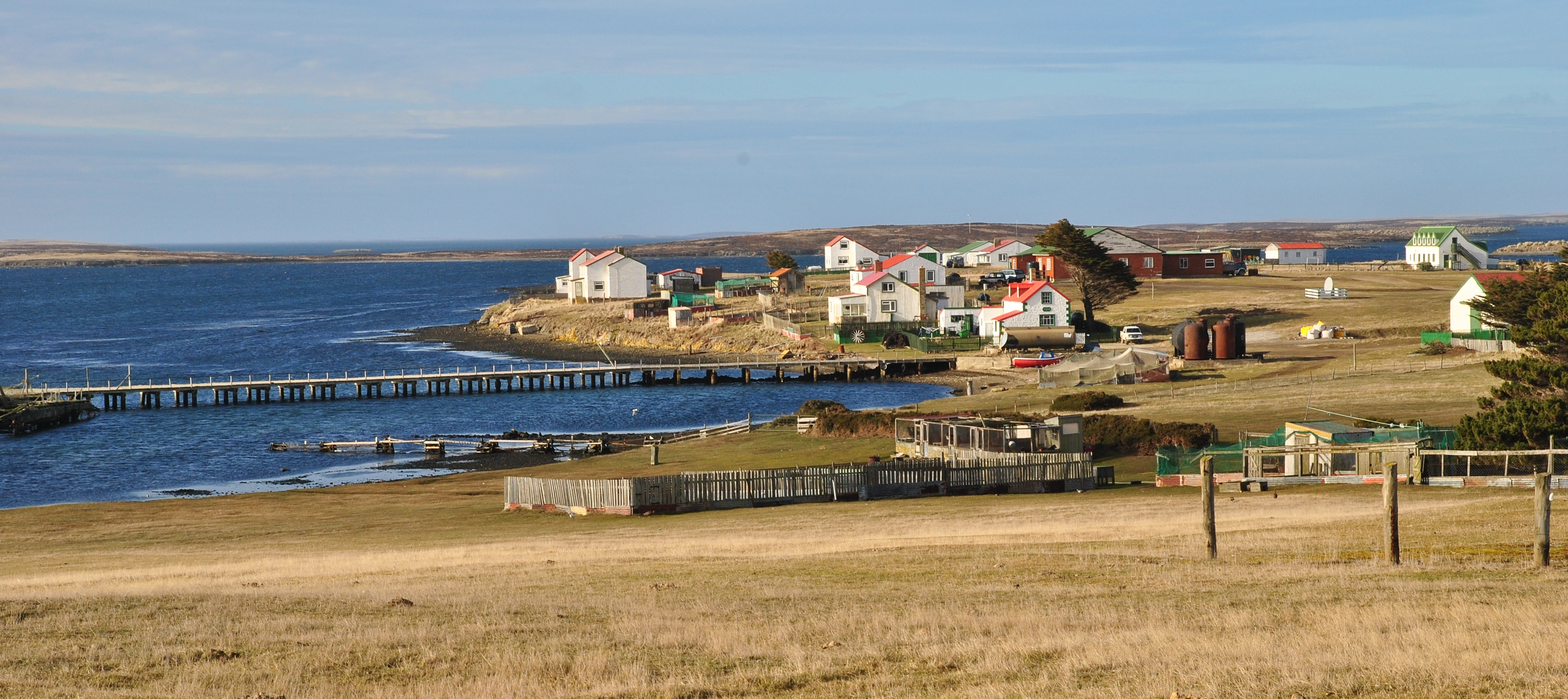 The view of Goose Green taken on a very sunny morning !